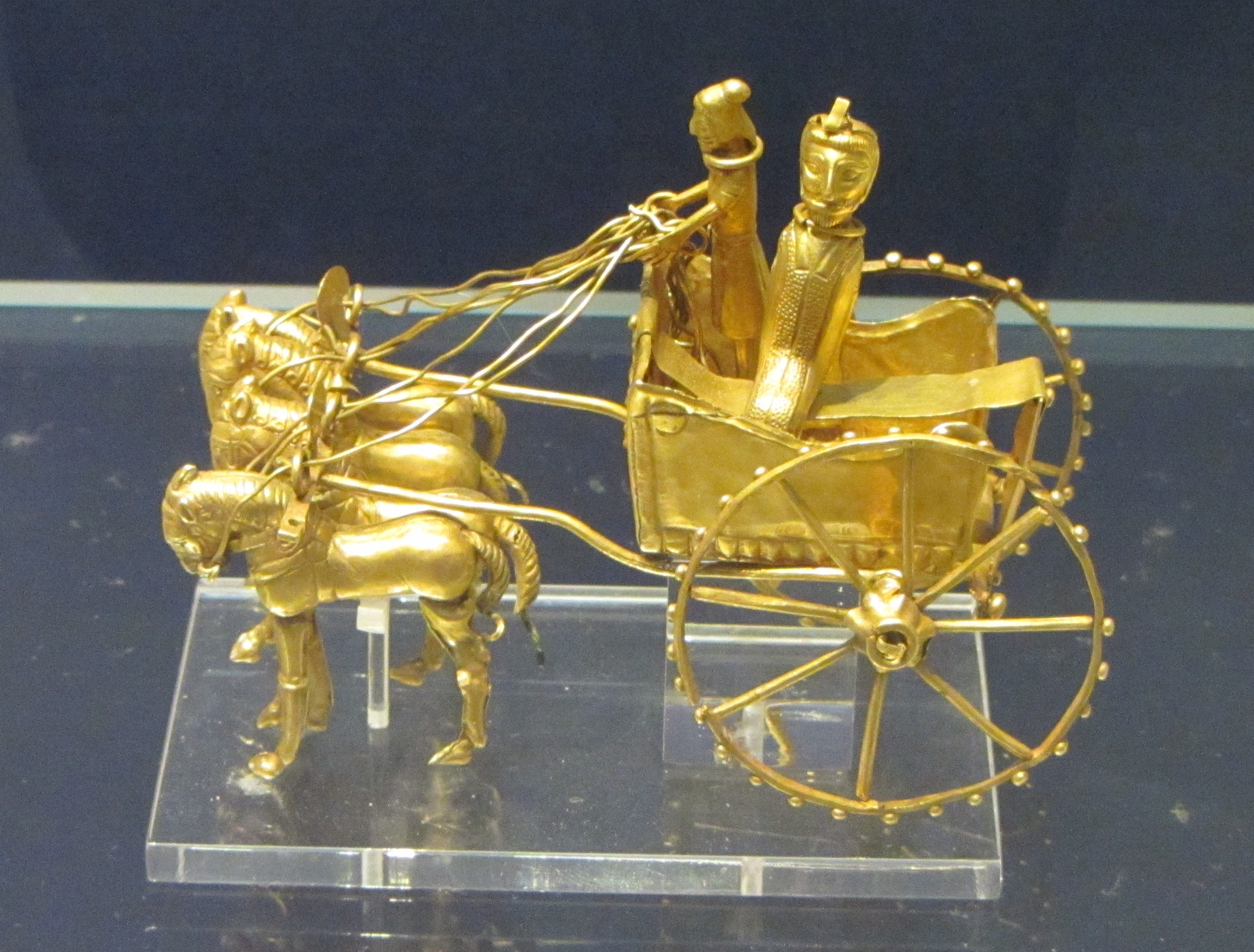 Oxus chariot model, from the region of Takht-i Kuwad, Tadjikistan, Achaemenid Persian, 5th-4th century BC. British Museum (1897,1231.7).